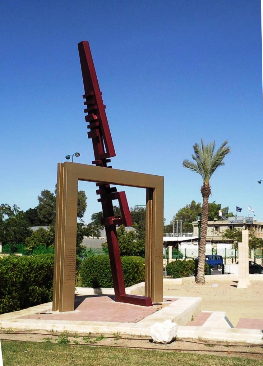 Monument to the sixteen civilians murdered by suicide bombers of Hamas terrorism, in the city of Beer Sheva, Israel, August 31, 2004